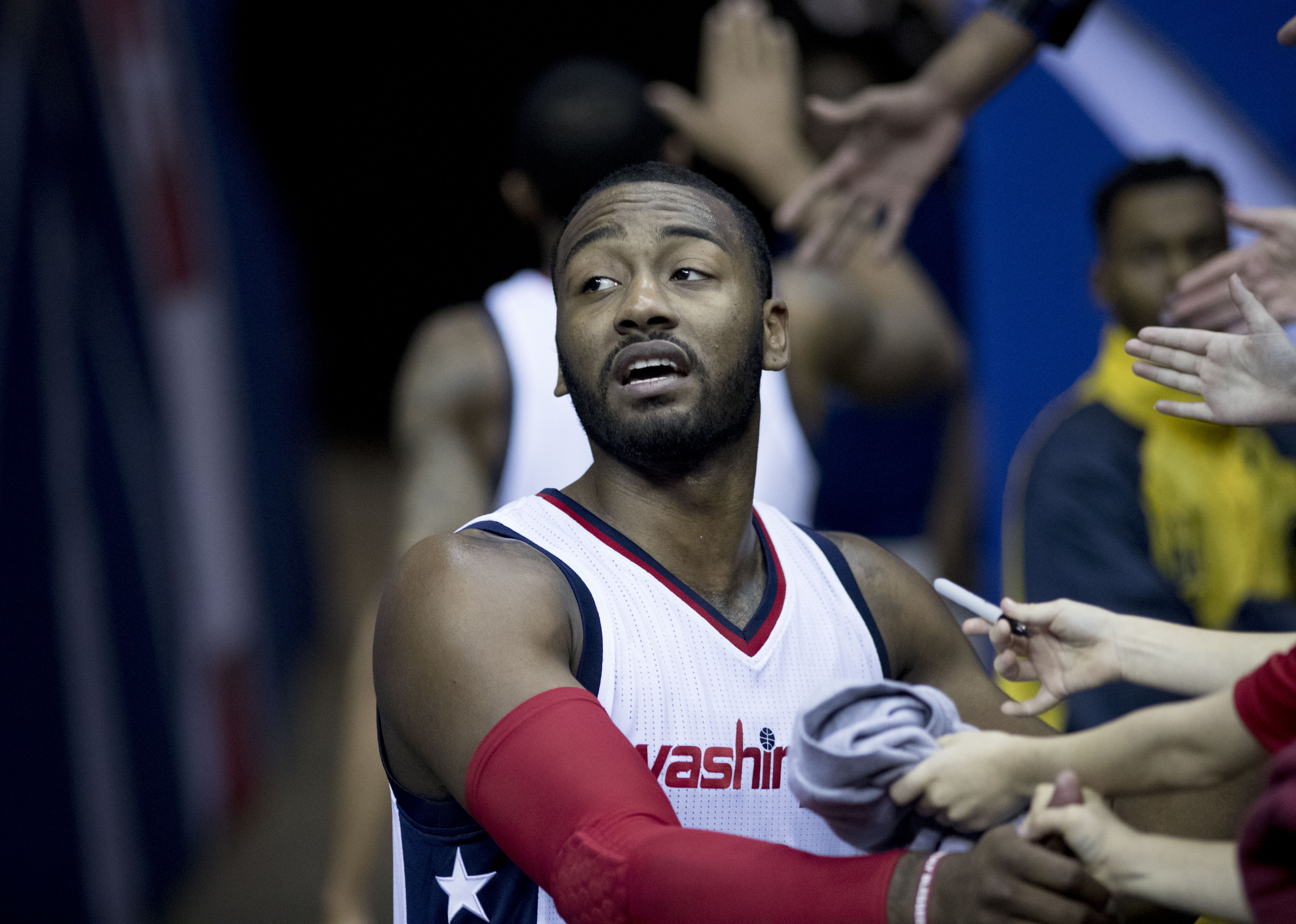 John Wall signs autographs after a Washington Wizards game versus the Charlotte Hornets in 2016.